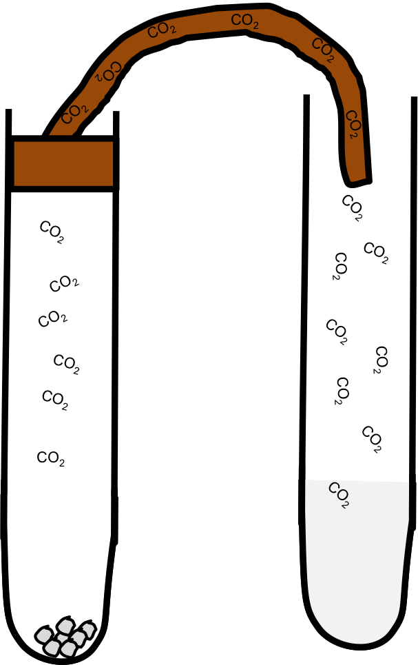 The experiment of hydrochloric acid and calcium carbonate.